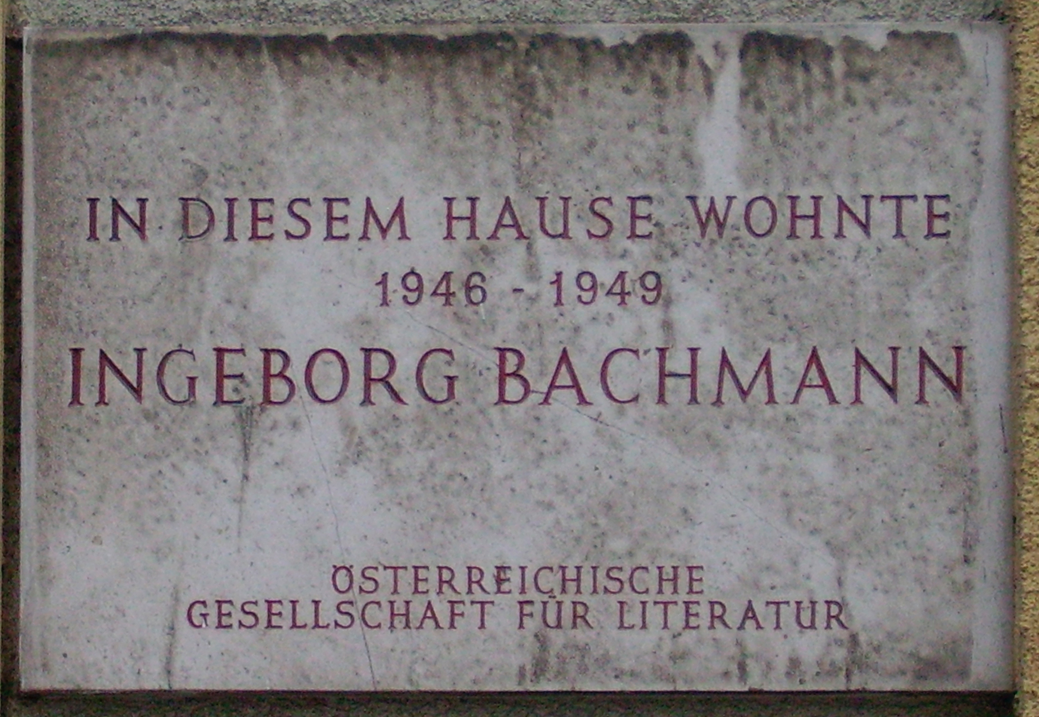 Plaque for Ingeborg Bachmann, where she lived from 1946 to 1949 with the Winkler family. Revealed on April 4, 1978.